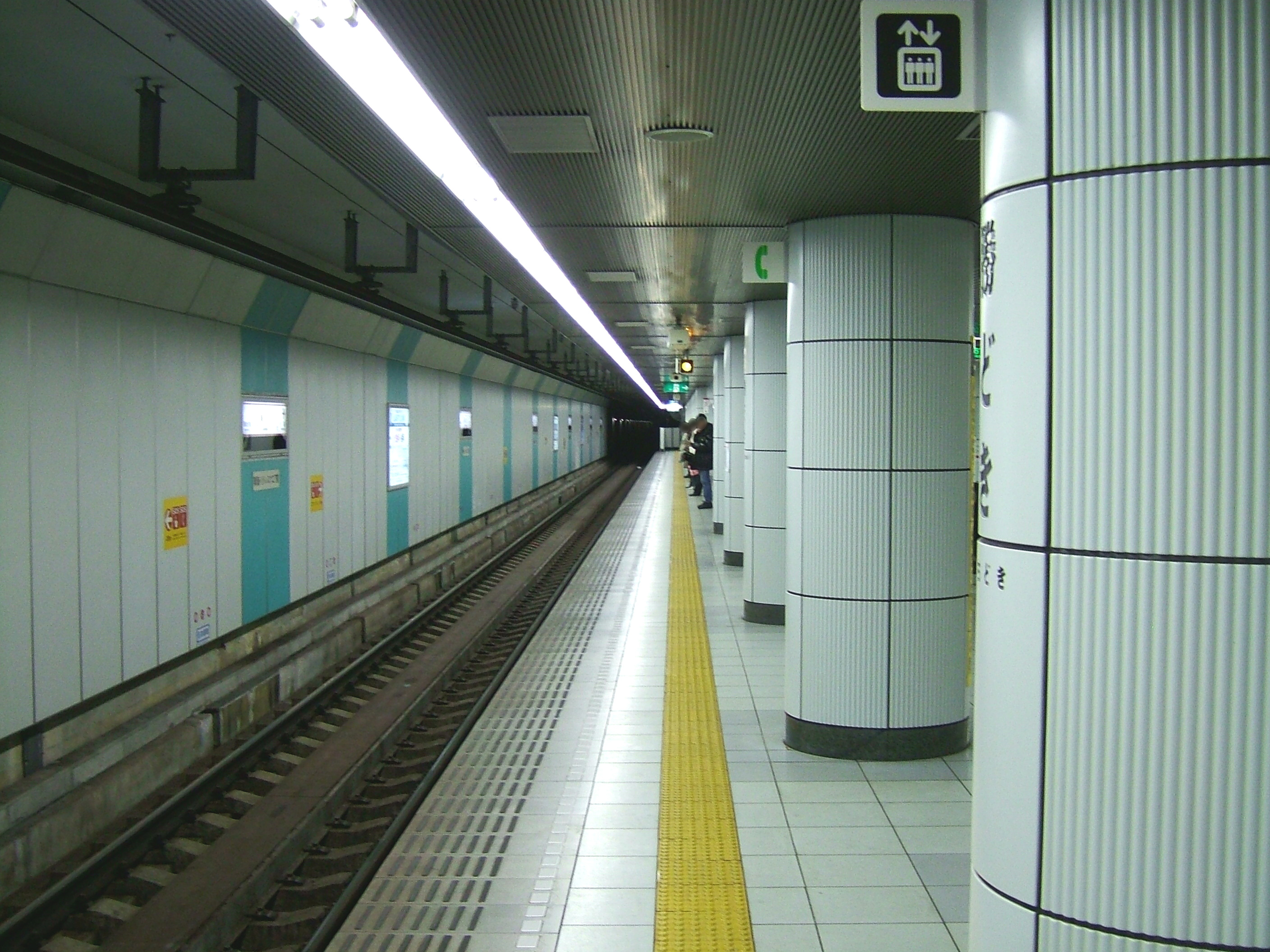 The platform at Kachidoki Station on the Toei Oedo Line in Tokyo, Japan